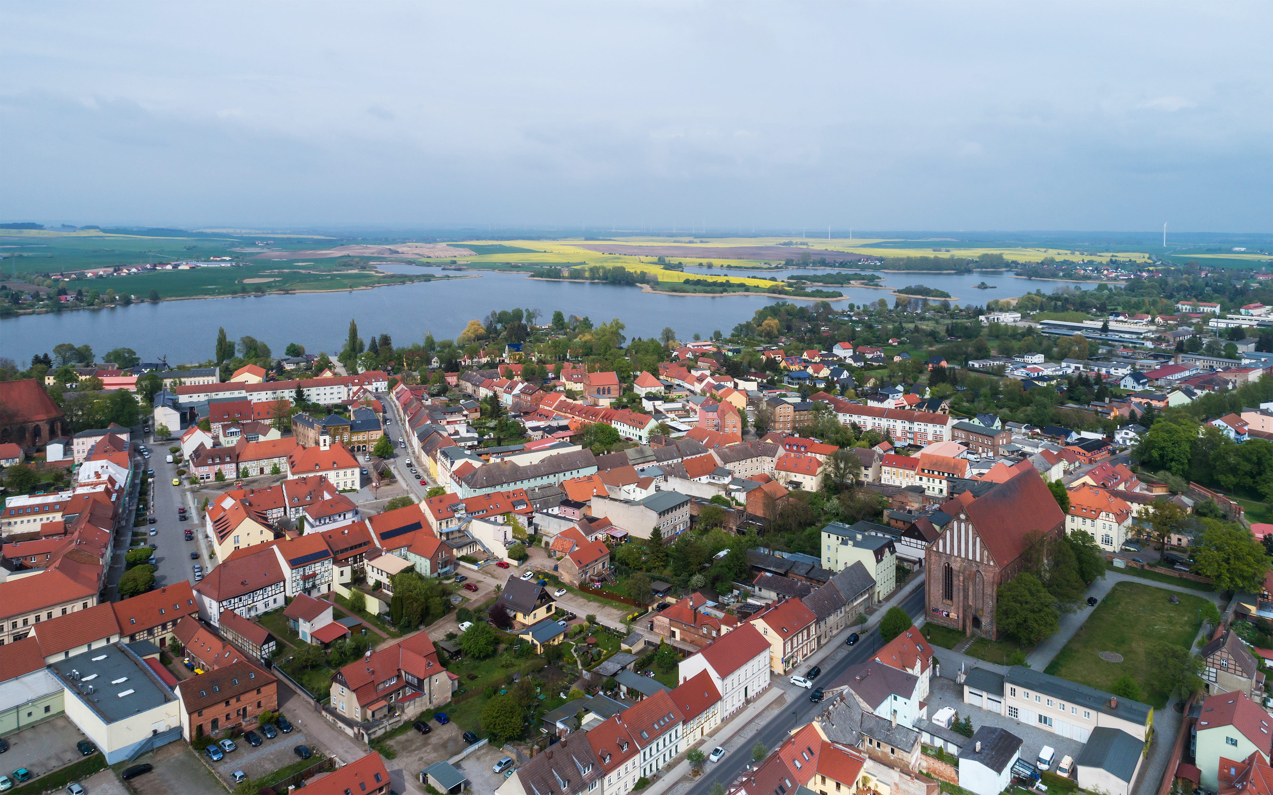 Aerial photo of Angermünde (Brandenburg/Germany)